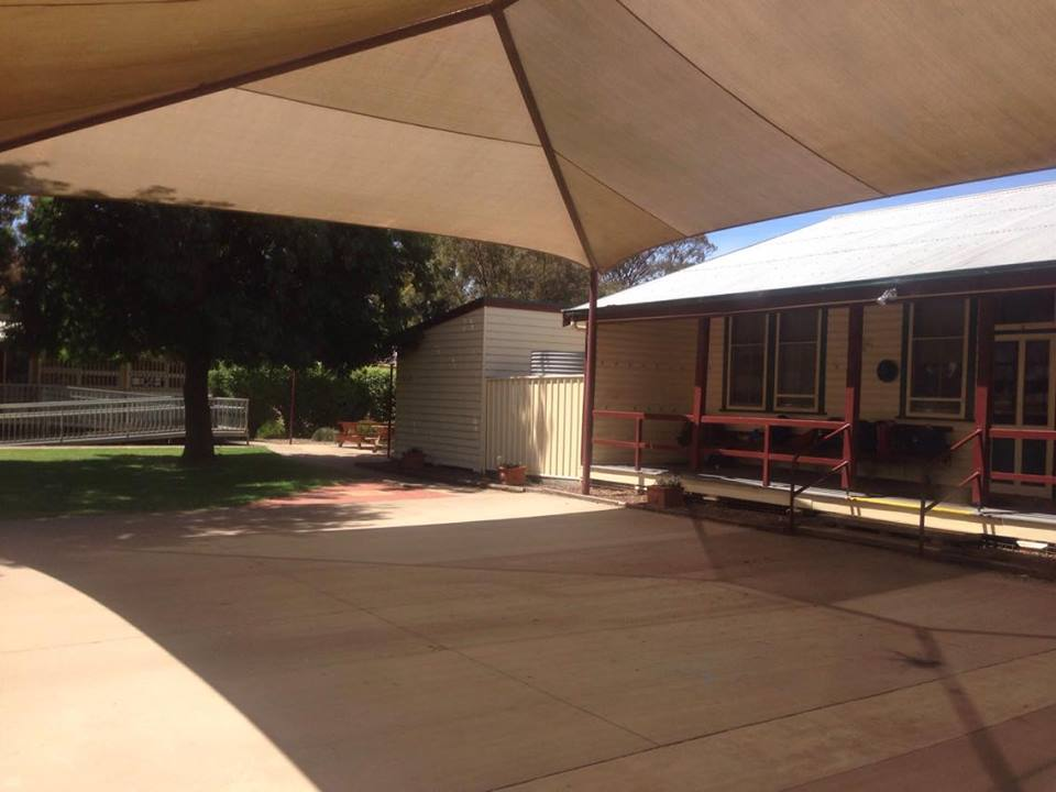 Photo from the window of the Computer Room within the K/1/2 Classroom of Bunnaloo Public School. Features Portable Library and Office Building, Weather Shed, and 3/4 Classroom (L-R).